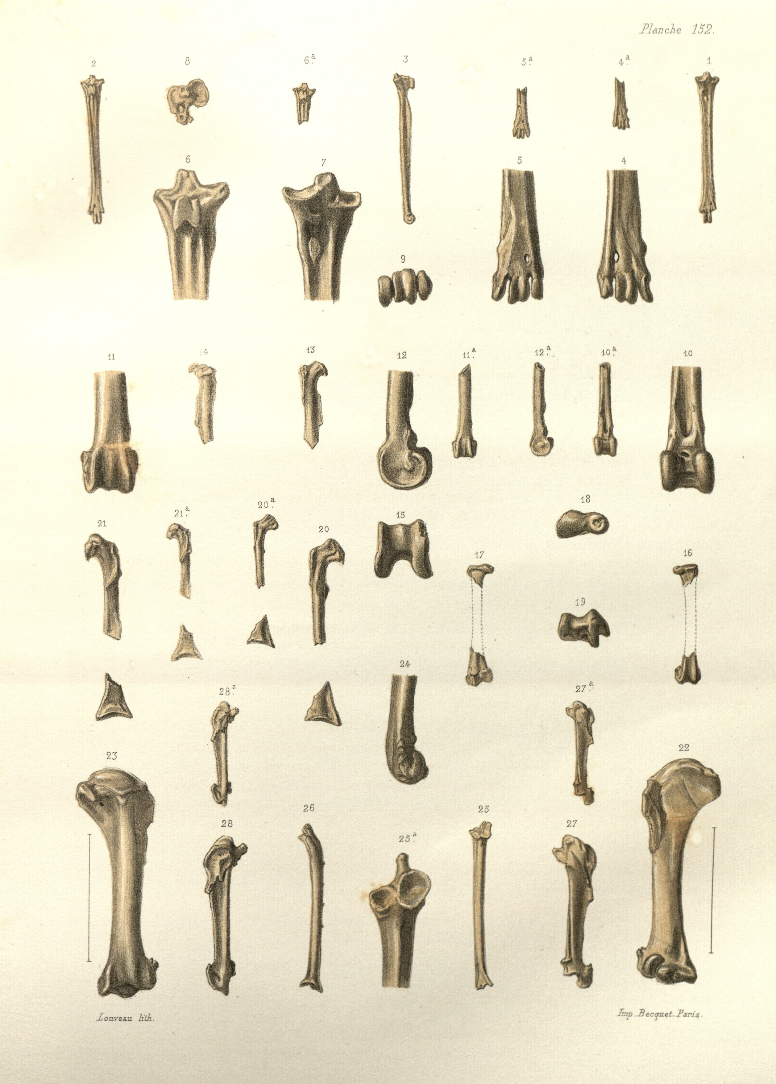 Table from Aphonse Milne-Edwards' Recherches Anatomiques et Paléontologiques depicting several fossil bones of Miocorvus larteti The description reads: 1. Tarsometatarsus, anterior view, natural size 2. Posterior view of the same bone 3. Outer view of the same 4., 5., 6. & 7. Enlarged details of the same bone, 4., 5. & 6. also in natural size (a) 8. Tibiotarsus (Fibula)